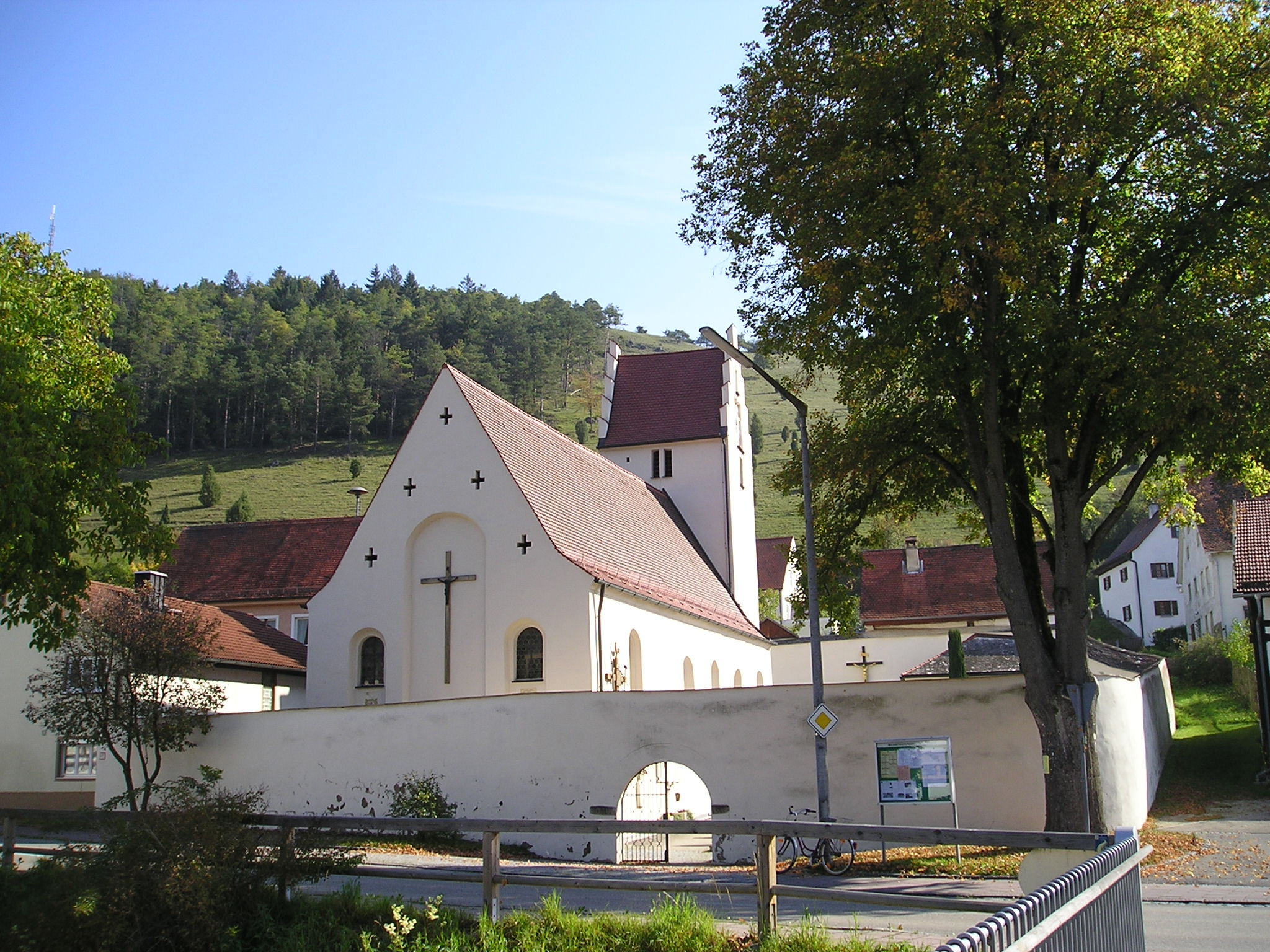 Enkering, St Othmar Parish Church from west.